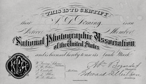 Membership certificate, National Photographic Association of the United States, ca.1874.